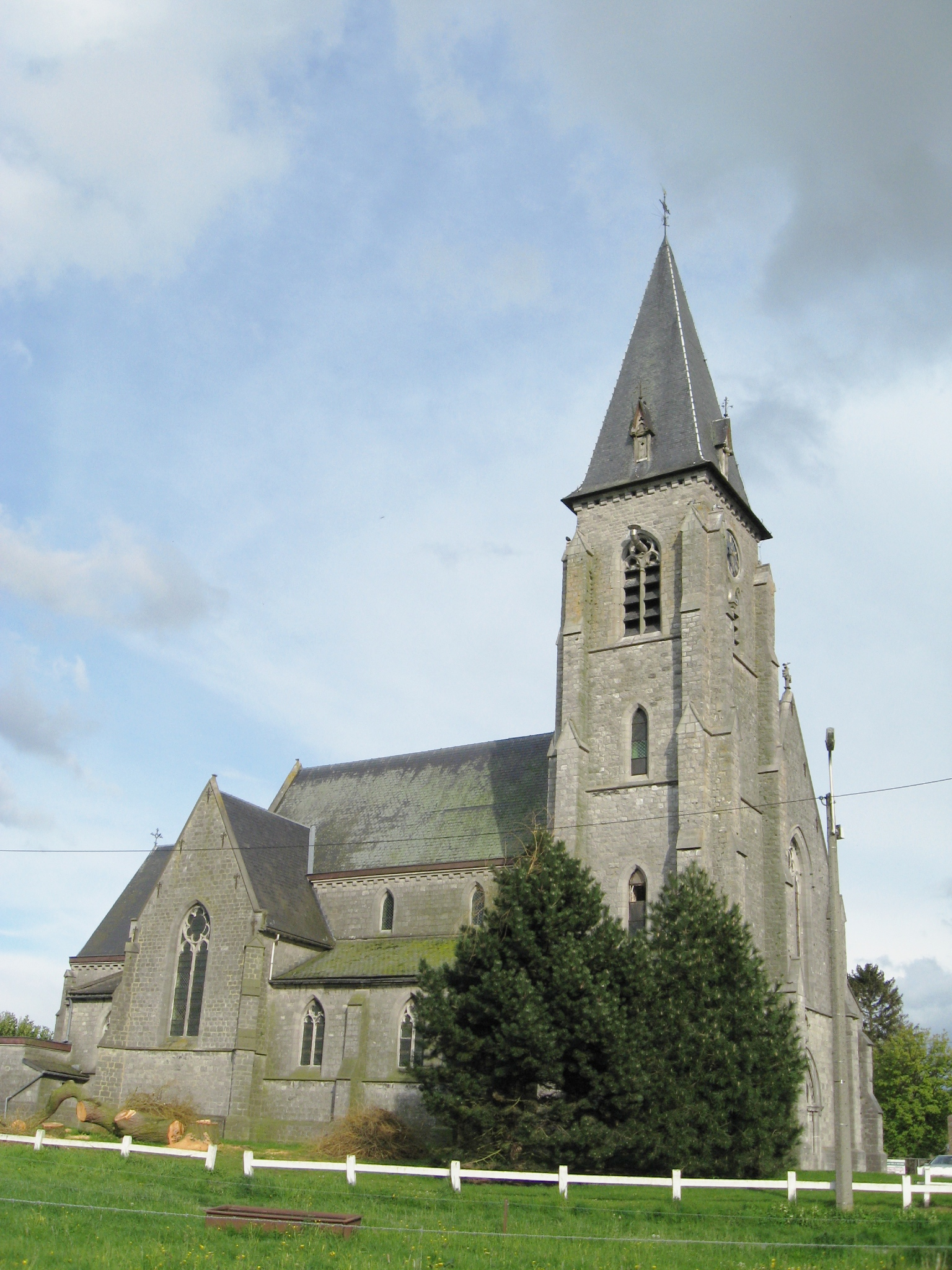 Church of Saint Martin in Darion, Geer, Liège, Belgium